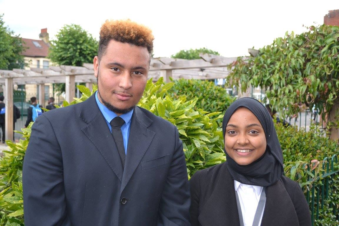 New Head Boy and Head Girl